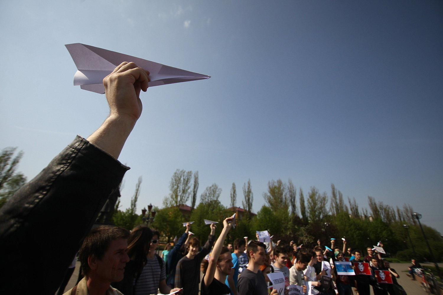 Rally in Telegram support in Kaliningrad (2018-04-30)